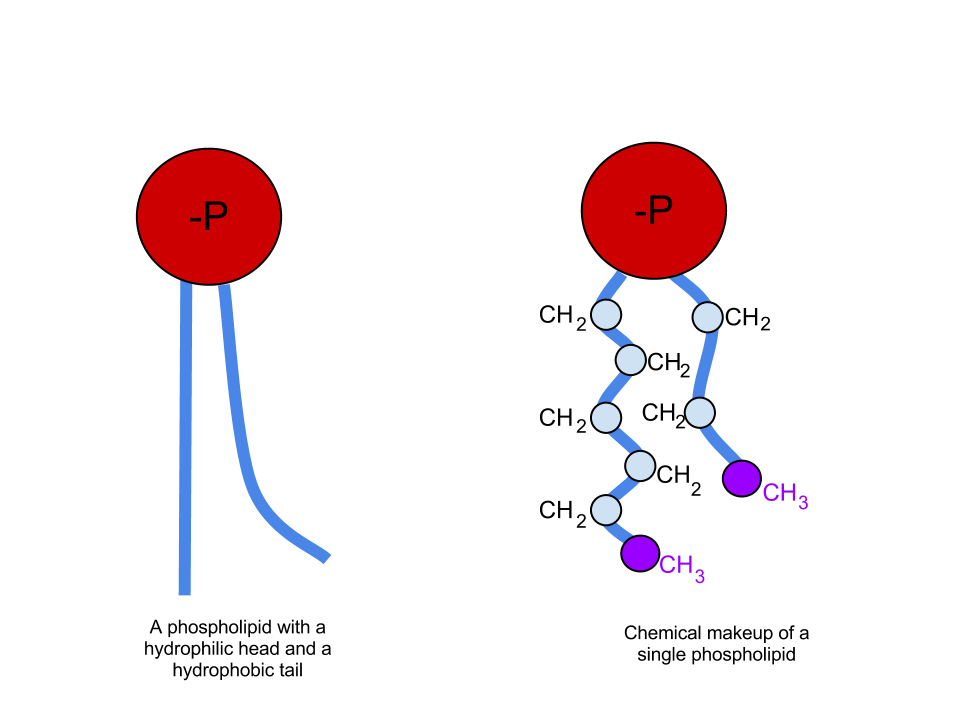 The image to the left shows a phospholipid and the one to the right shows the chemical makeup of the same phospholipid.